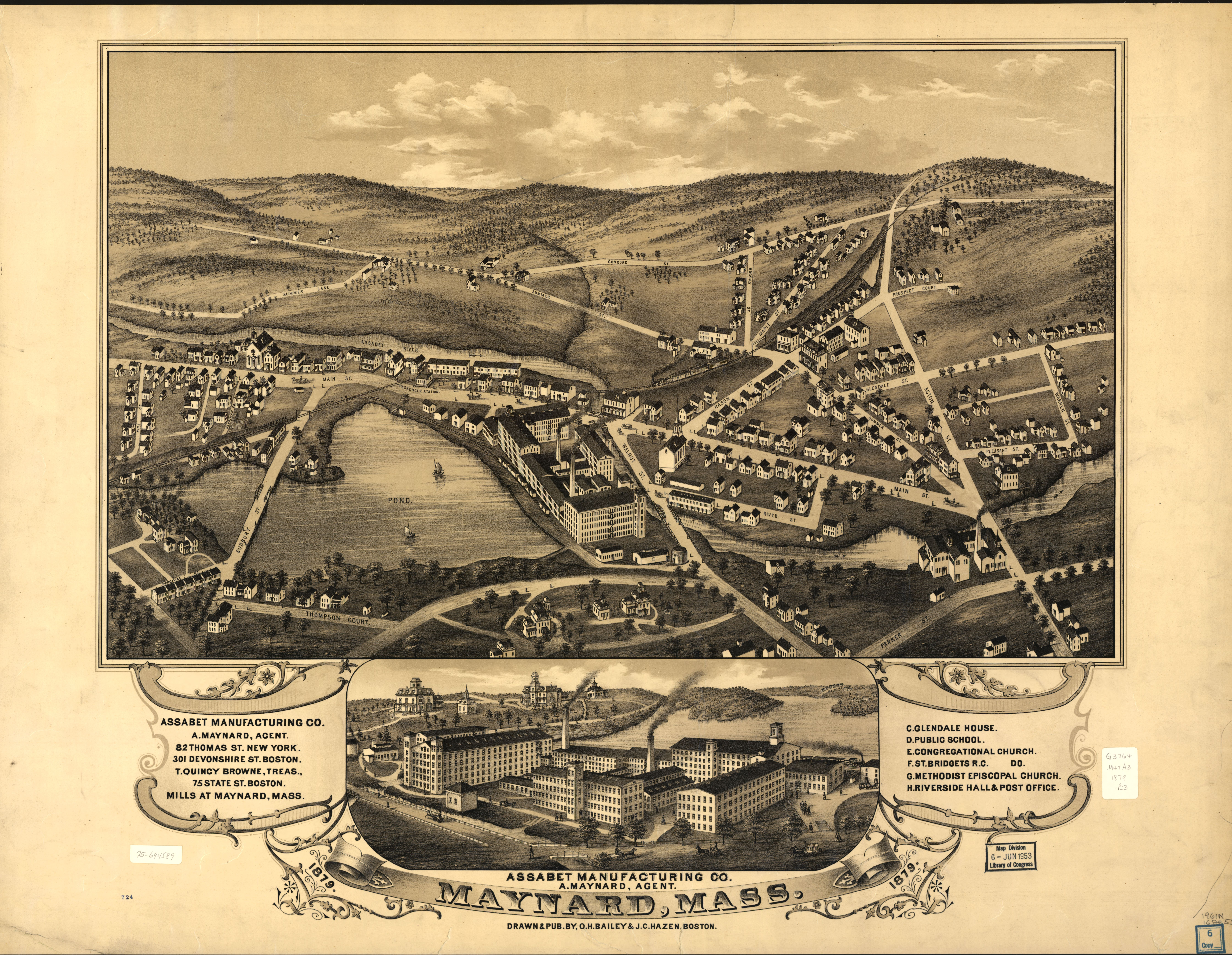 Perspective map not drawn to scale. Bird's-eye-view. LC Panoramic maps (2nd ed.), 309 Available also through the Library of Congress Web site as a raster image. Includes illus. and index to points of interest. AACR2